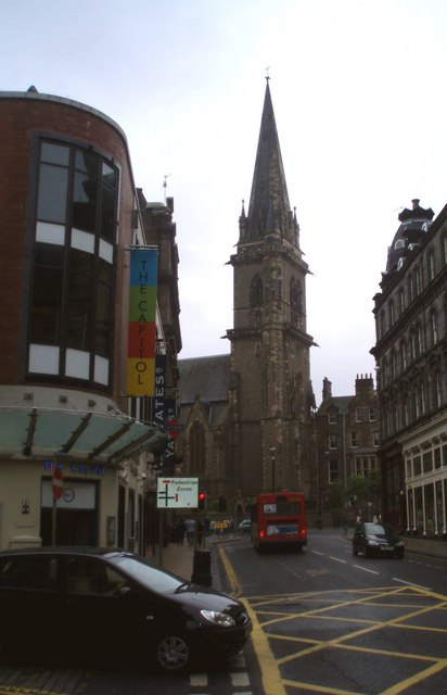 The Cathedral, from the Seagate. Taken on a rainy, but busy Saturday at mid day. The cathedral sits on a small hill which was originally occupied by the town's castle. On the left is the old cinema now occupied by two modern pubs. On the right the light coloured frontage is an amusement arcade, the burgundy one is another pub of an older vintage.